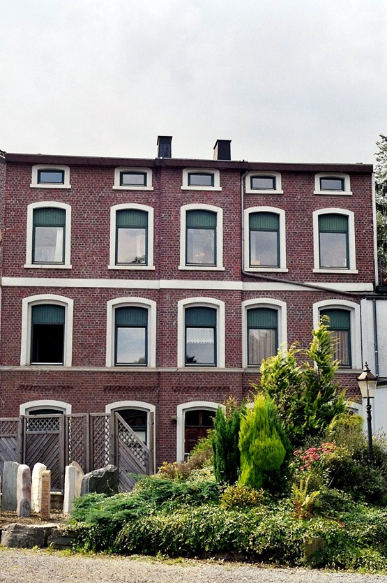 The house Ludwig Mies van der Rohe grew up at Vaalser Strasse 314 in Aachen, Germany.